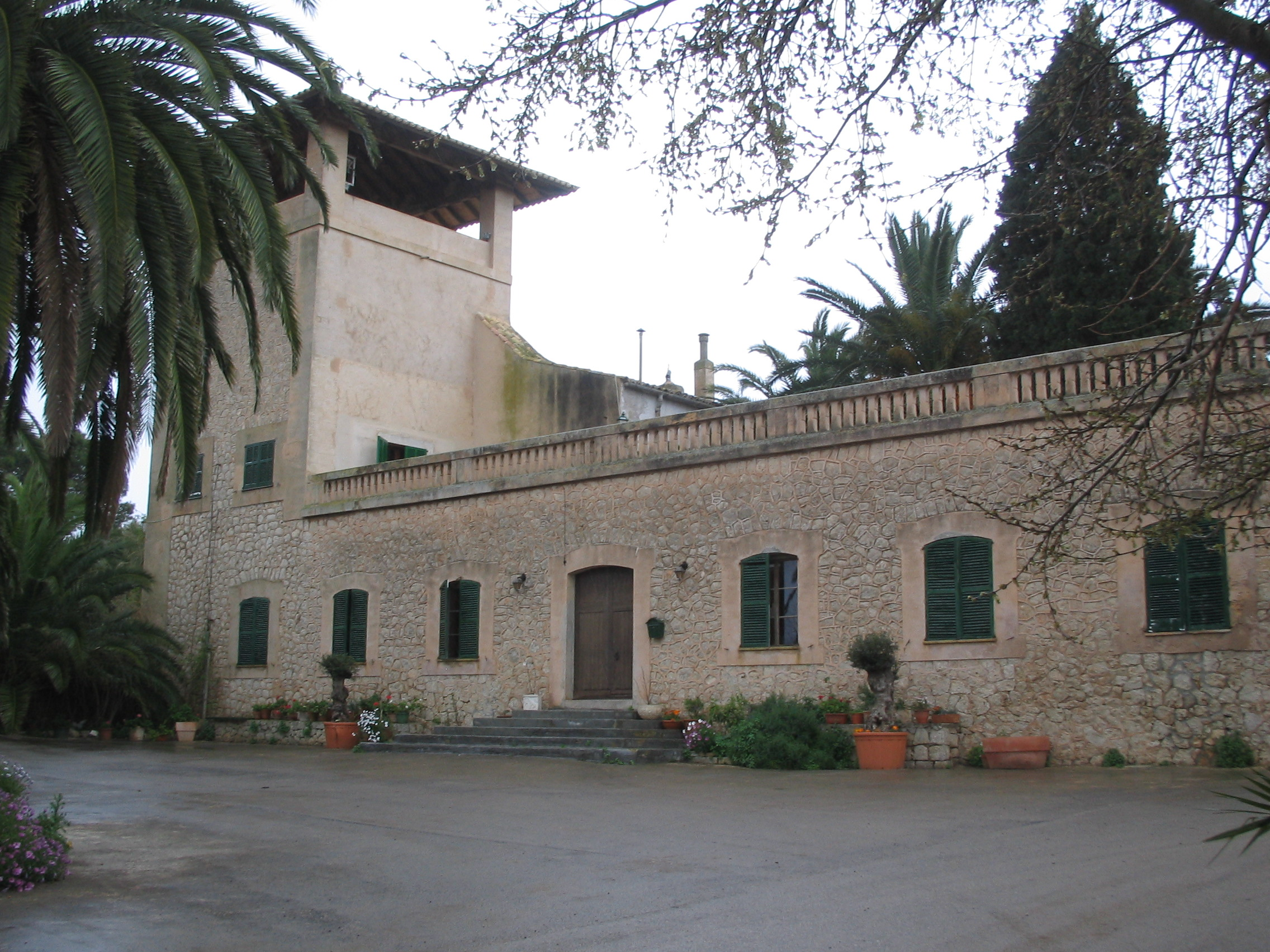 Majorcan farm house.